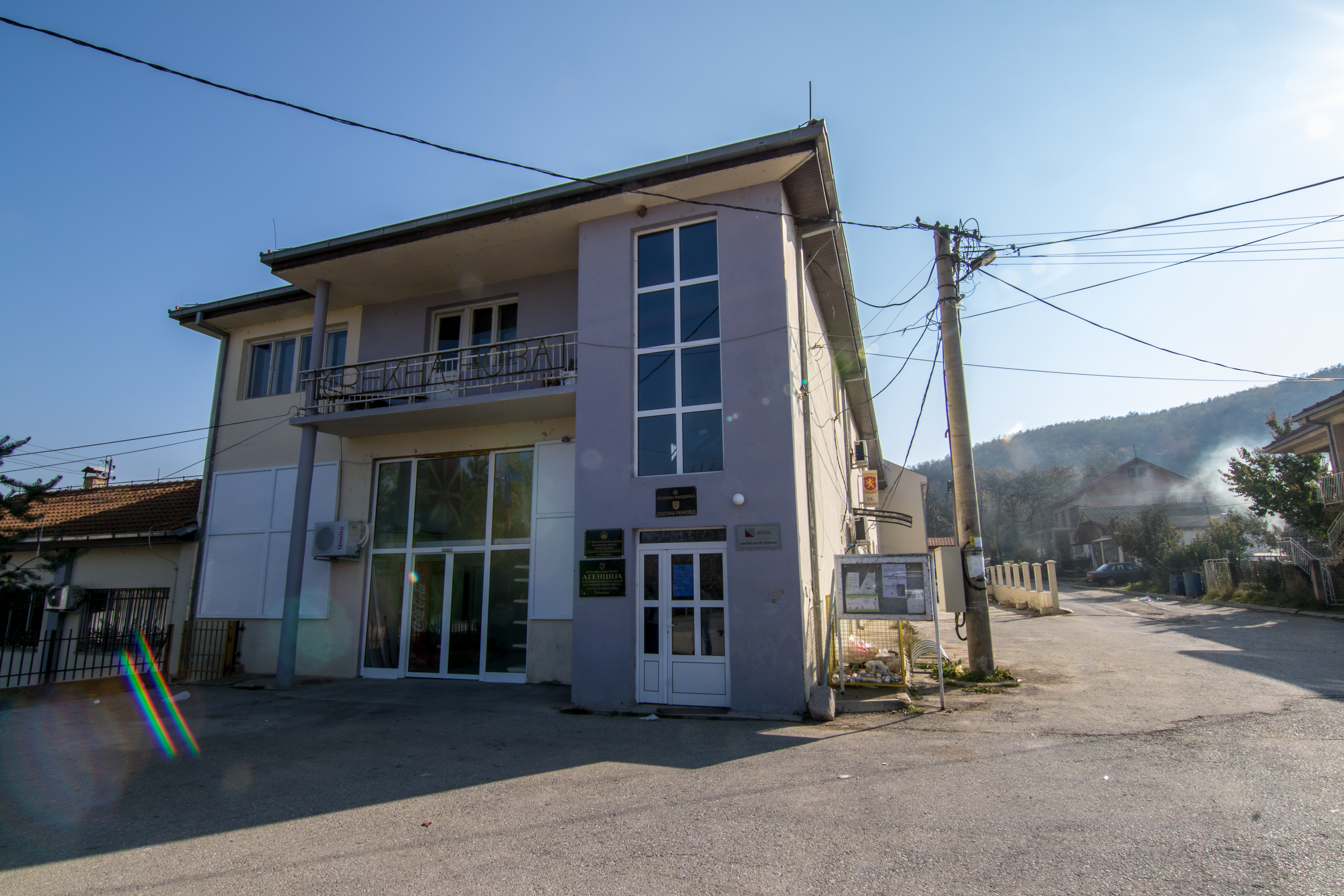 View of the municipal building of the Municipality Rankovce